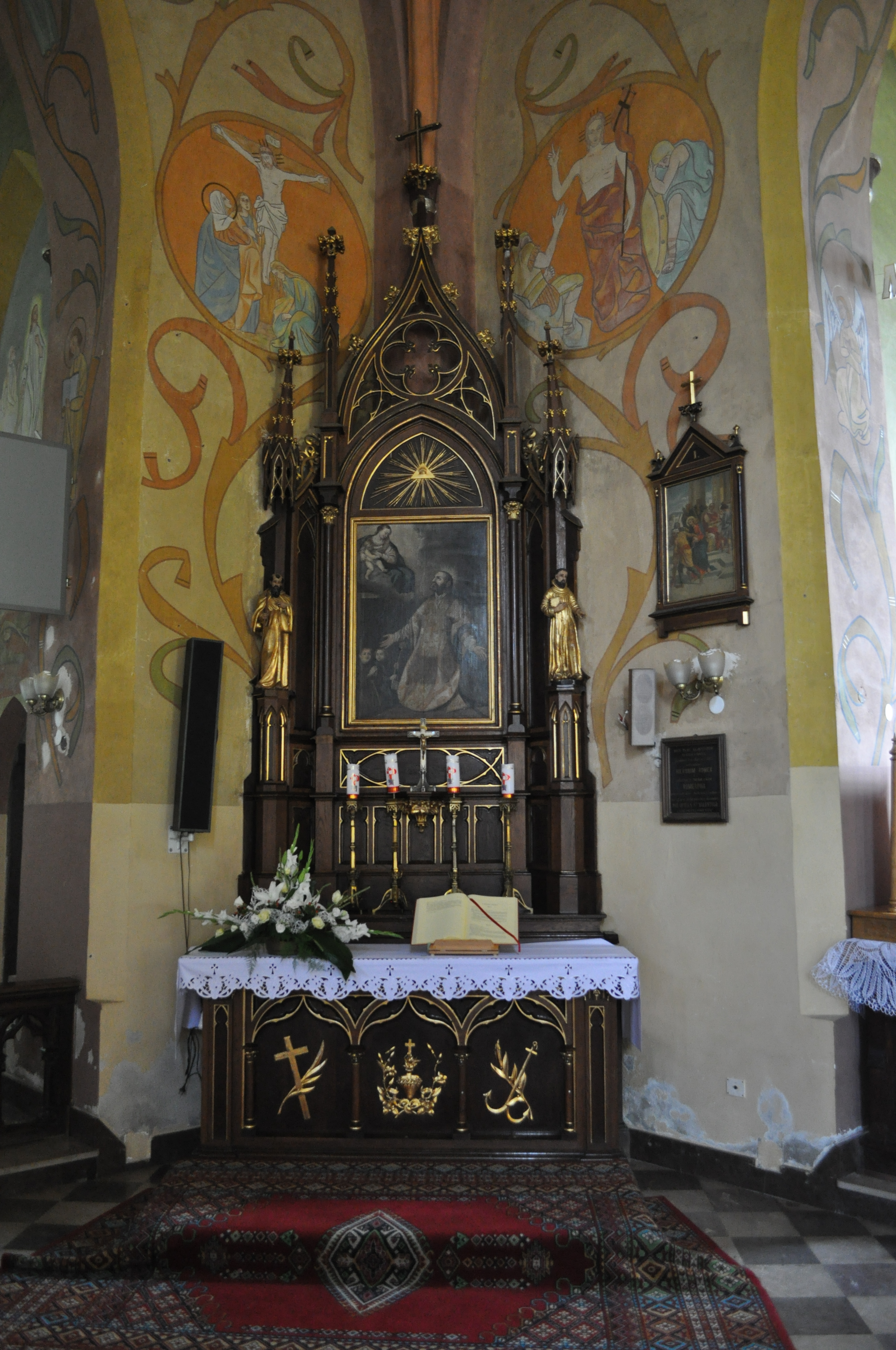 Church in Dudyńce